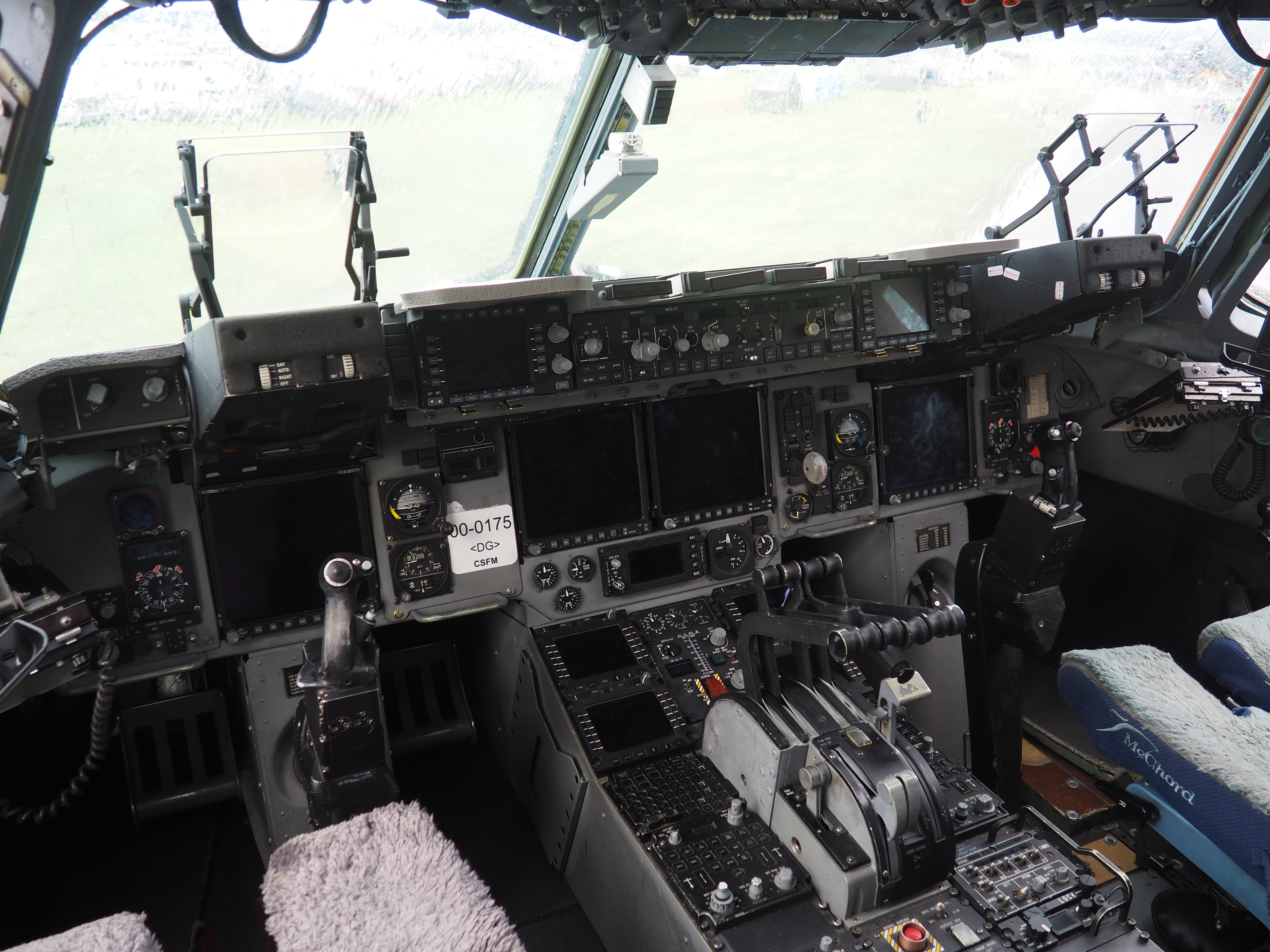 Cockpit of Boeing C-17 Globemaster III.